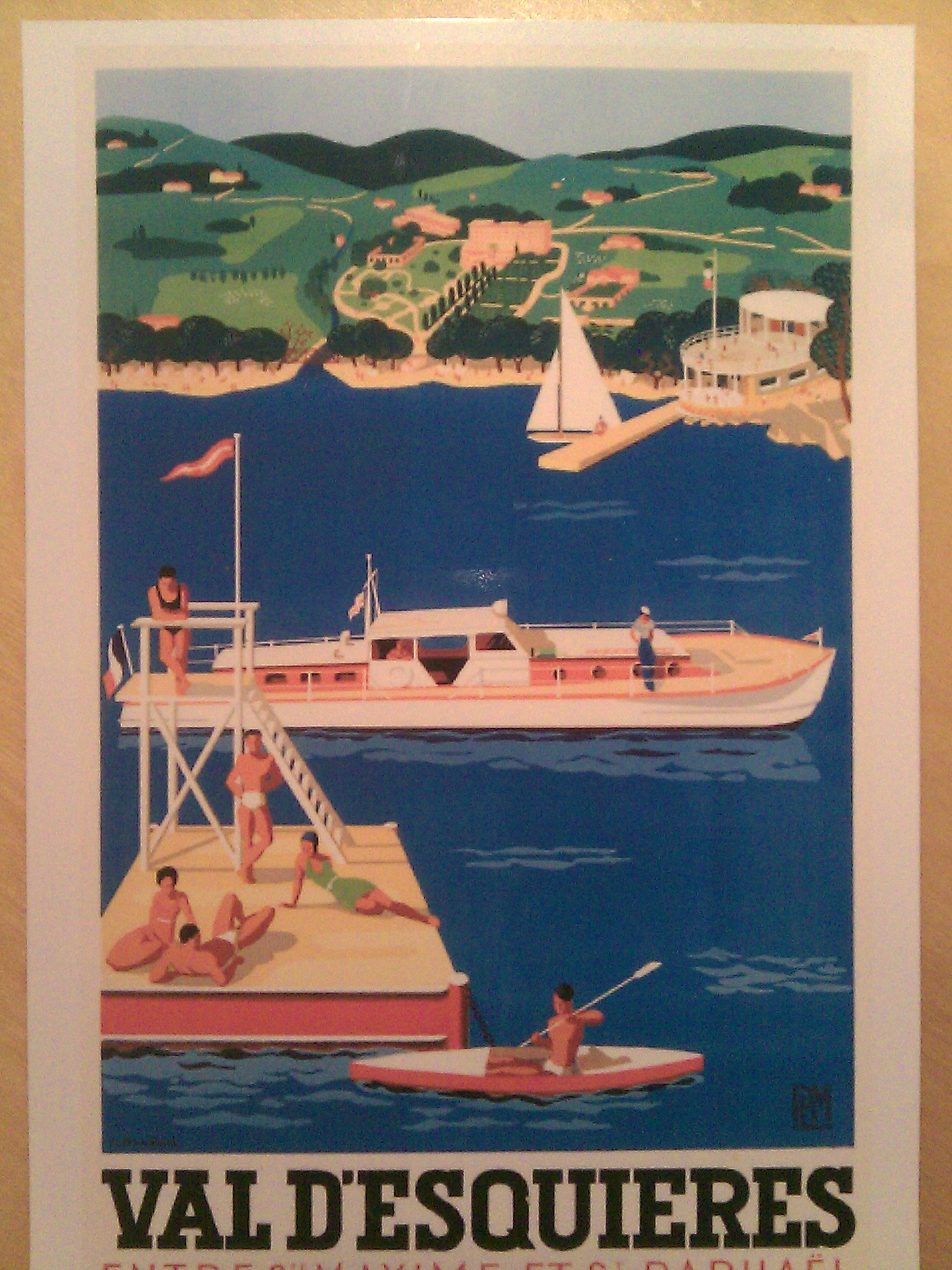 Low res documentary photo of tourist poster (1930) Val d'Esquières issued by now defunct PLM (french railway Cie).